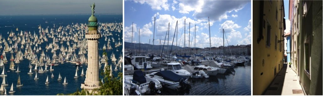 A collage showing some places in Trieste.